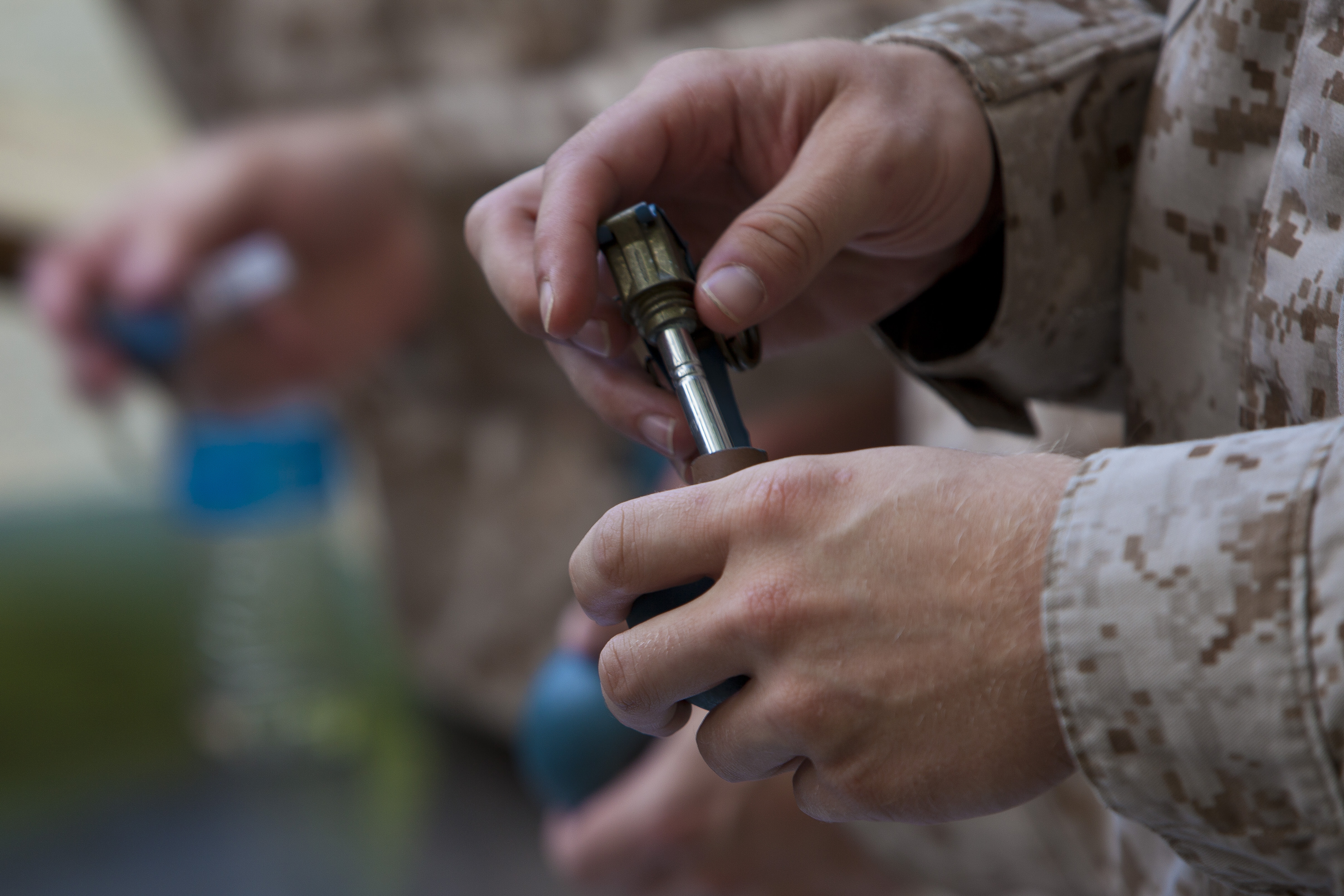 Company B Marines with Marine Barracks Washington, insert fuses inside practice grenade bodies before a live grenade range part of a training exercise at Marine Corps Base Quantico, Va., Aug. 21. Co. B spent a day at the facility refreshing their knowledge and skills on the M40 gas mask, practice grenades, fragmentation grenades, martial arts and infantryman tactics.